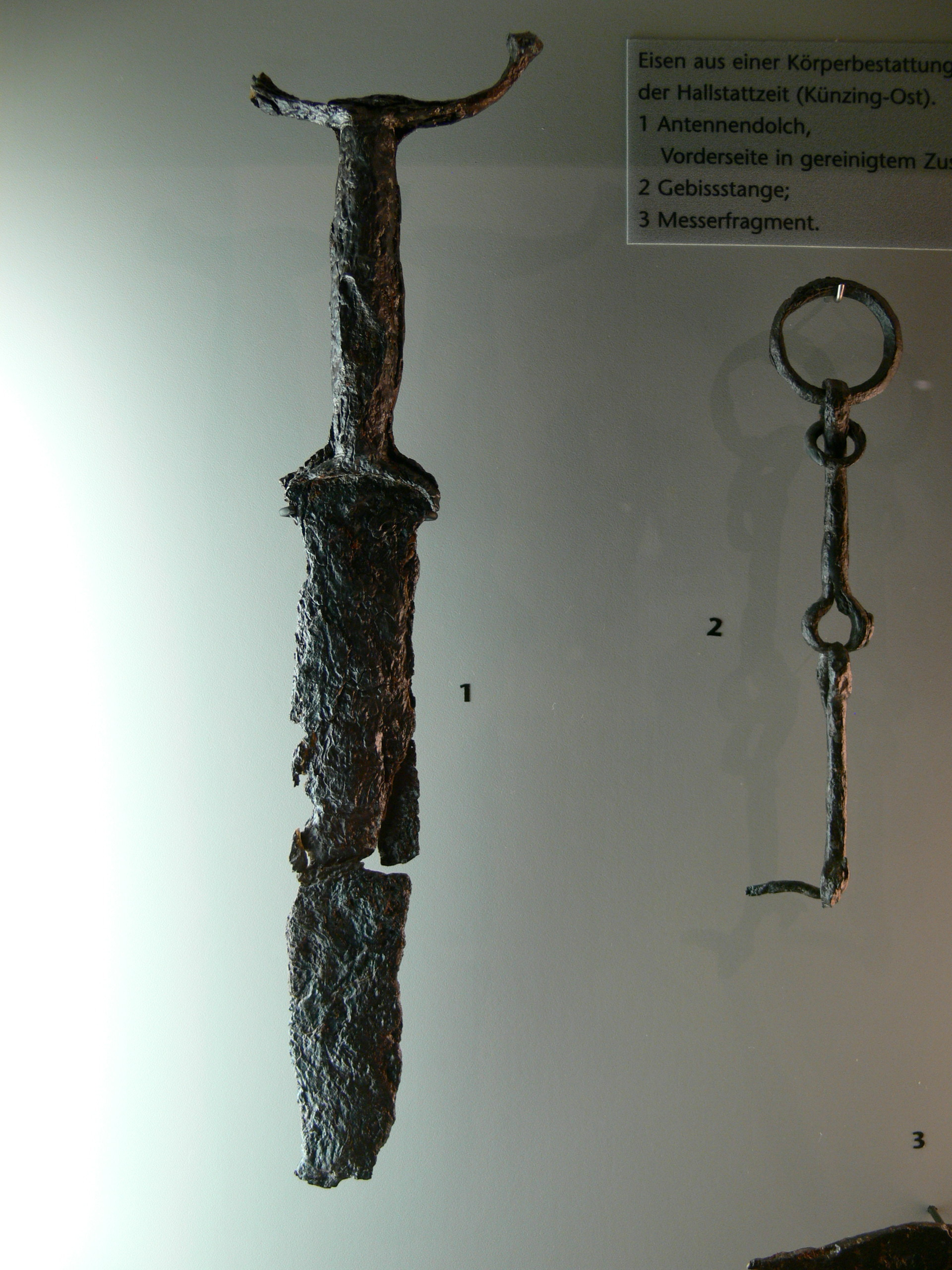 Museum Quintana. So called "Antenna" - dagger of the Hallstatt culture.